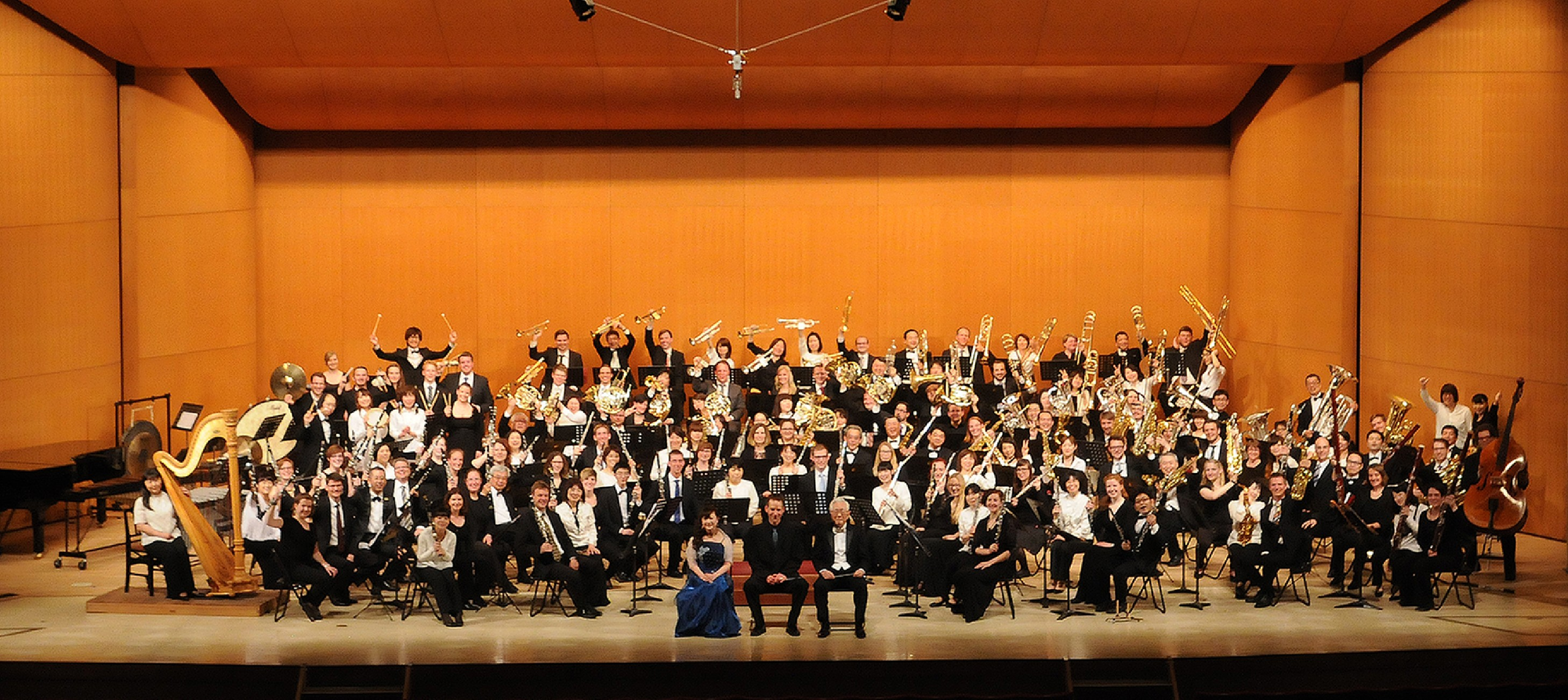 The symphonic wind orchestras "Westfalen Winds" and the "Omiya Wind Symphony" together at the "Joint Concert 2015"-festival in the Omiya Citizen Hall, Saitama, Japan 2015